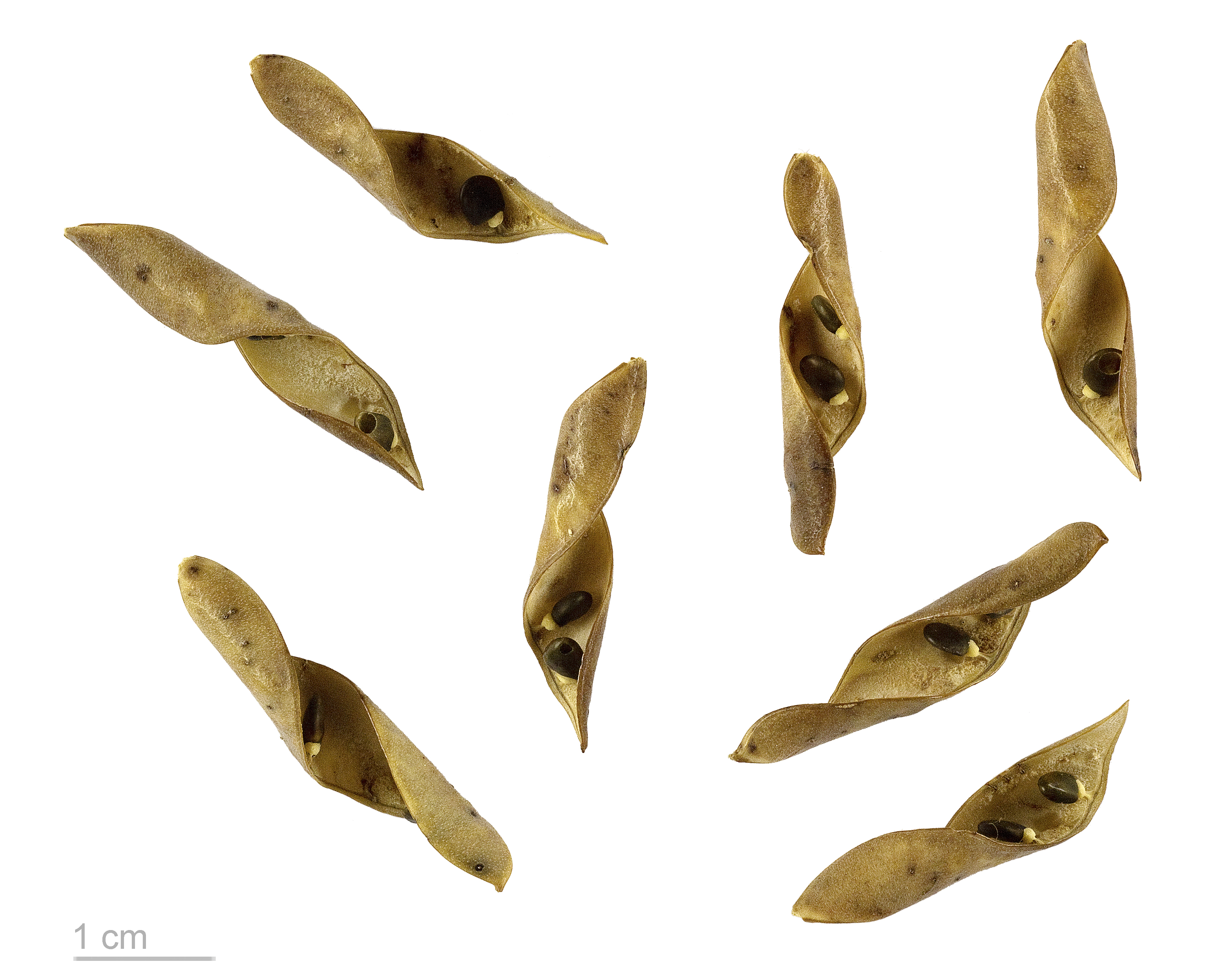 Cytisophyllum sessilifolium , fruits and seeds